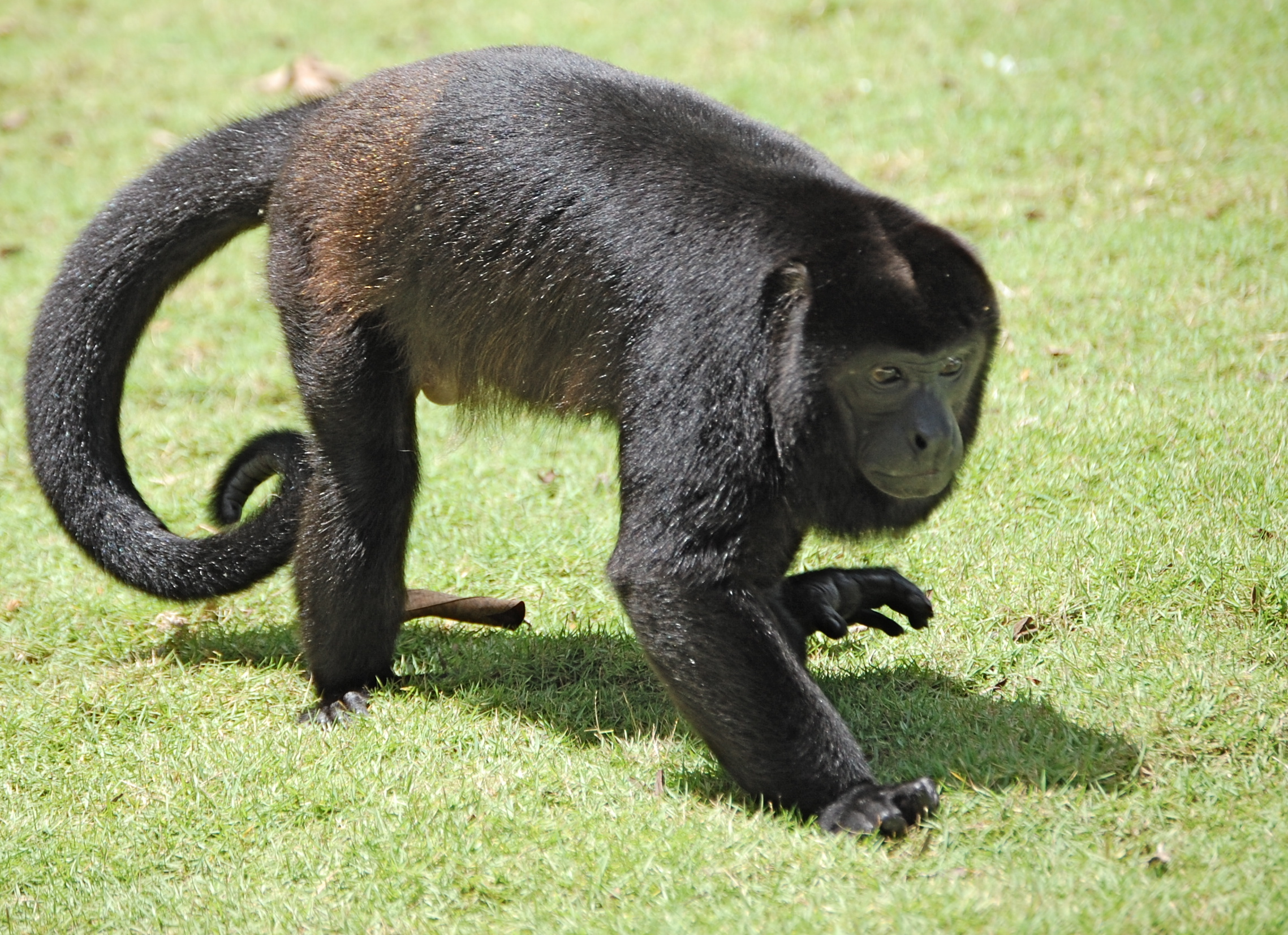 Male Howler monkey (Alouatta palliata) at the Caña Blanca wildlife sanctuary on the Golfo Dulce, Costa Rica. This individual had been partially reintroduced to the wild, but still occasionally wandered back into the sanctuary as in the photograph here. (Brightness was slightly adjusted in iPhoto to make shadowed face clearer.)